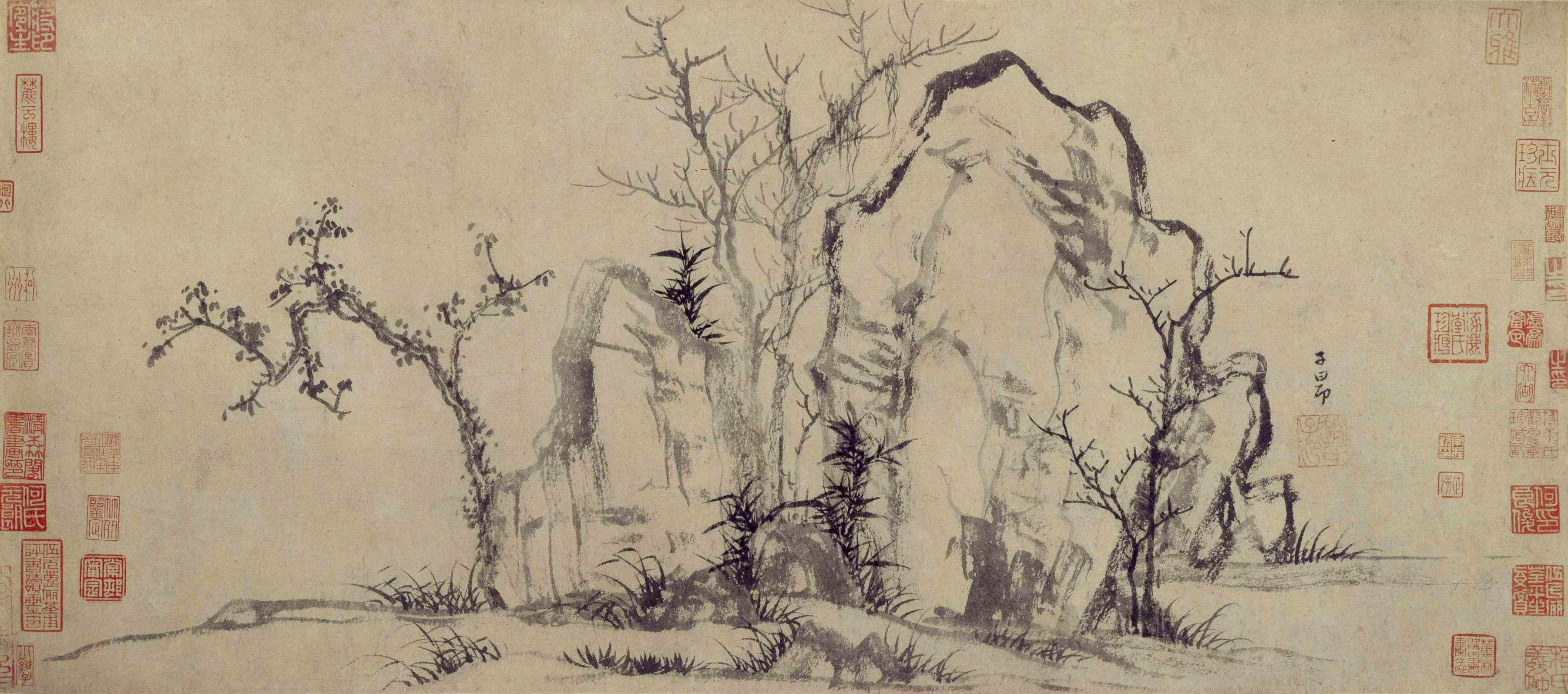 Elegant Rocks and Sparse Trees (秀石疏林). Handscroll section, ink on paper. Size 27.5 x 62.8 cm (height x width). Scroll is located at the Palace Museum, Beijing. (See Barnhart, R. M. et al. (1997). Three Thousand Years of Chinese Painting. New Haven, Yale University Press. ISBN 0-300-07013-6. Pages 188-189)